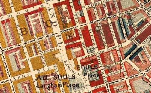 Map of section of St Marylebone (Portland Place and Great Portland Street) from Charles Booth's Labour and Life of the People. The streets are colored to represent the economic class of the residents: Yellow (“Upper-middle and Upper classes, Wealthy”), red ("Lower middle class - Well-to-do middle class"), pink ("Fairly comfortable good ordinary earnings"), blue ("Intermittent or casual earnings"), and black ("lowest class...occasional labourers, street sellers, loafers, criminals and semi-criminals")